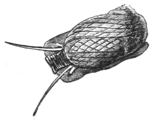 Illustration from Natural History: Mollusca (1854), p. 205 - "NERITINA FLUVIATILIS". Modern accepted name (2012) is Theodoxus fluviatilis.